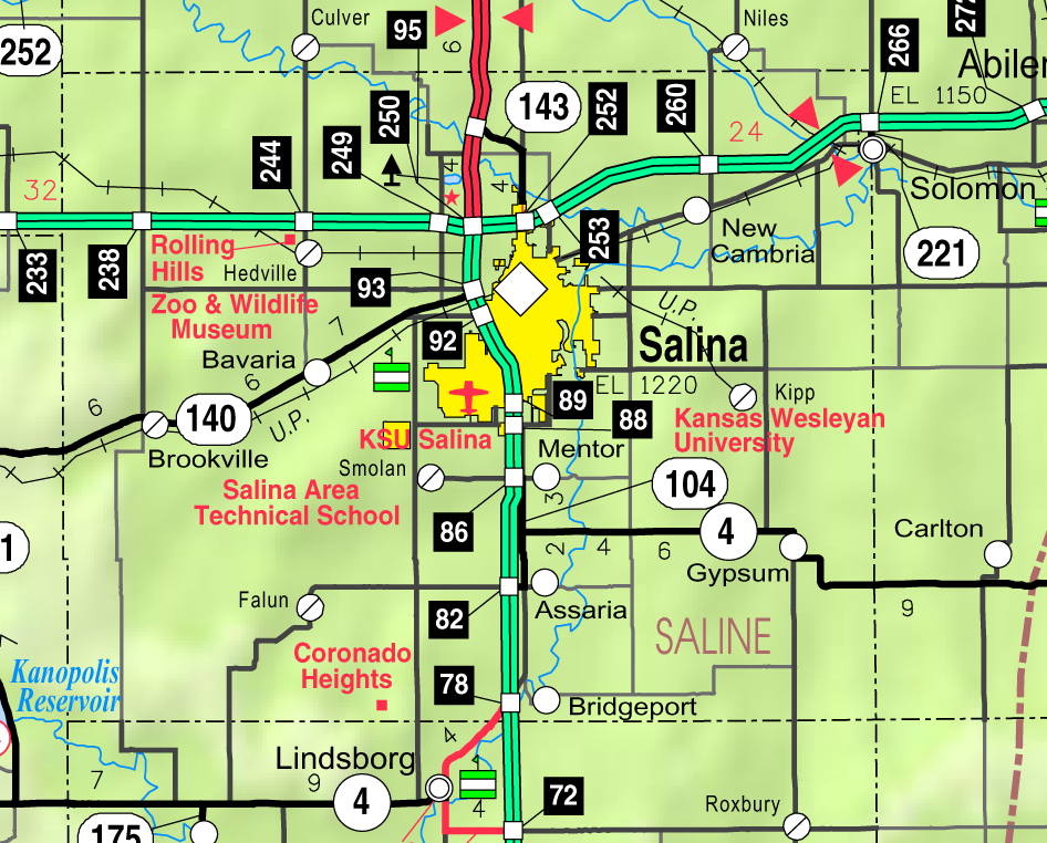 This map of Saline County, Kansas, USA, is copied at a resolution of 300 pixels/inch from the original PDF file.